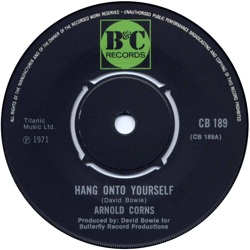 "Hang On to Yourself" by Arnold Corns; UK vinyl release